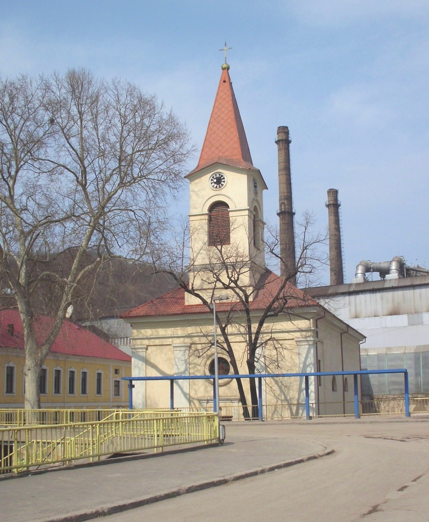 Frontal View of Mary of Snow Catholic ChurchRomână: Vedere din faţă a Bisericii romano-catolice Maria Zăpezii